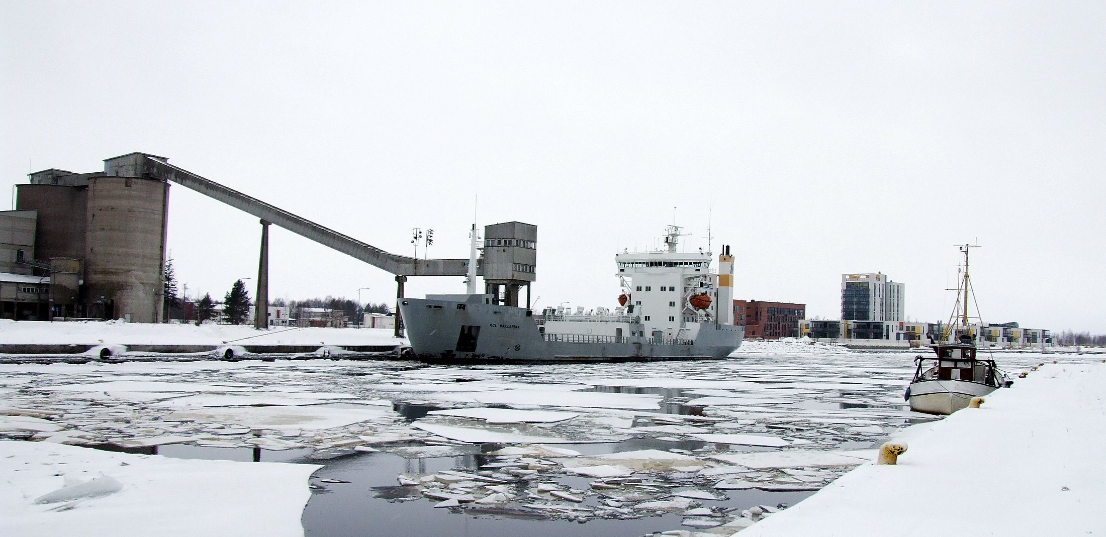 The cement carrier KCL Ballerina in the Toppila harbour in Oulu, Finland.